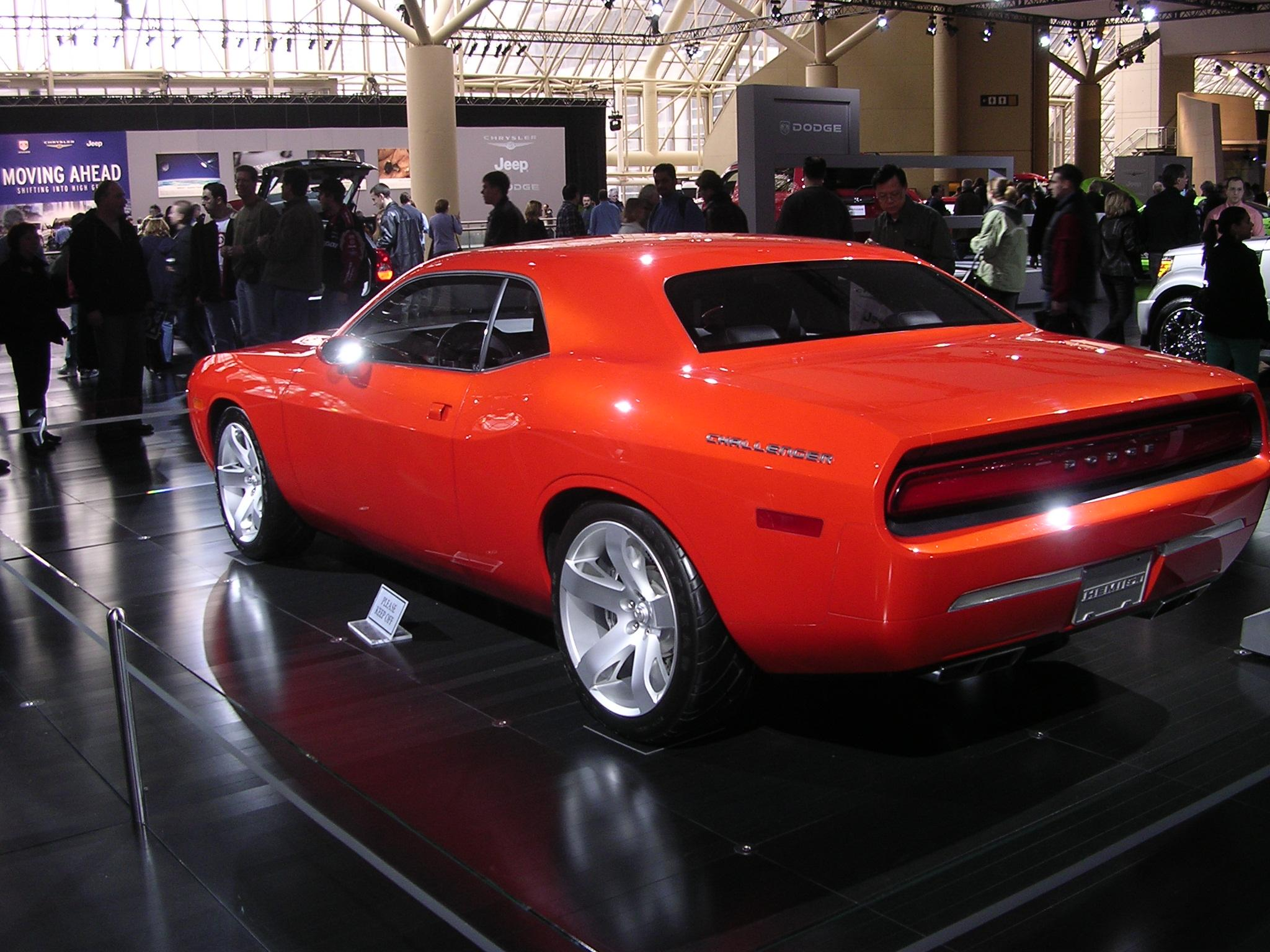 Picture taken by Adhish Bhargava at the 2007 Canadian International Auto Show - Adhishb 02:04, 15 April 2007 (UTC)